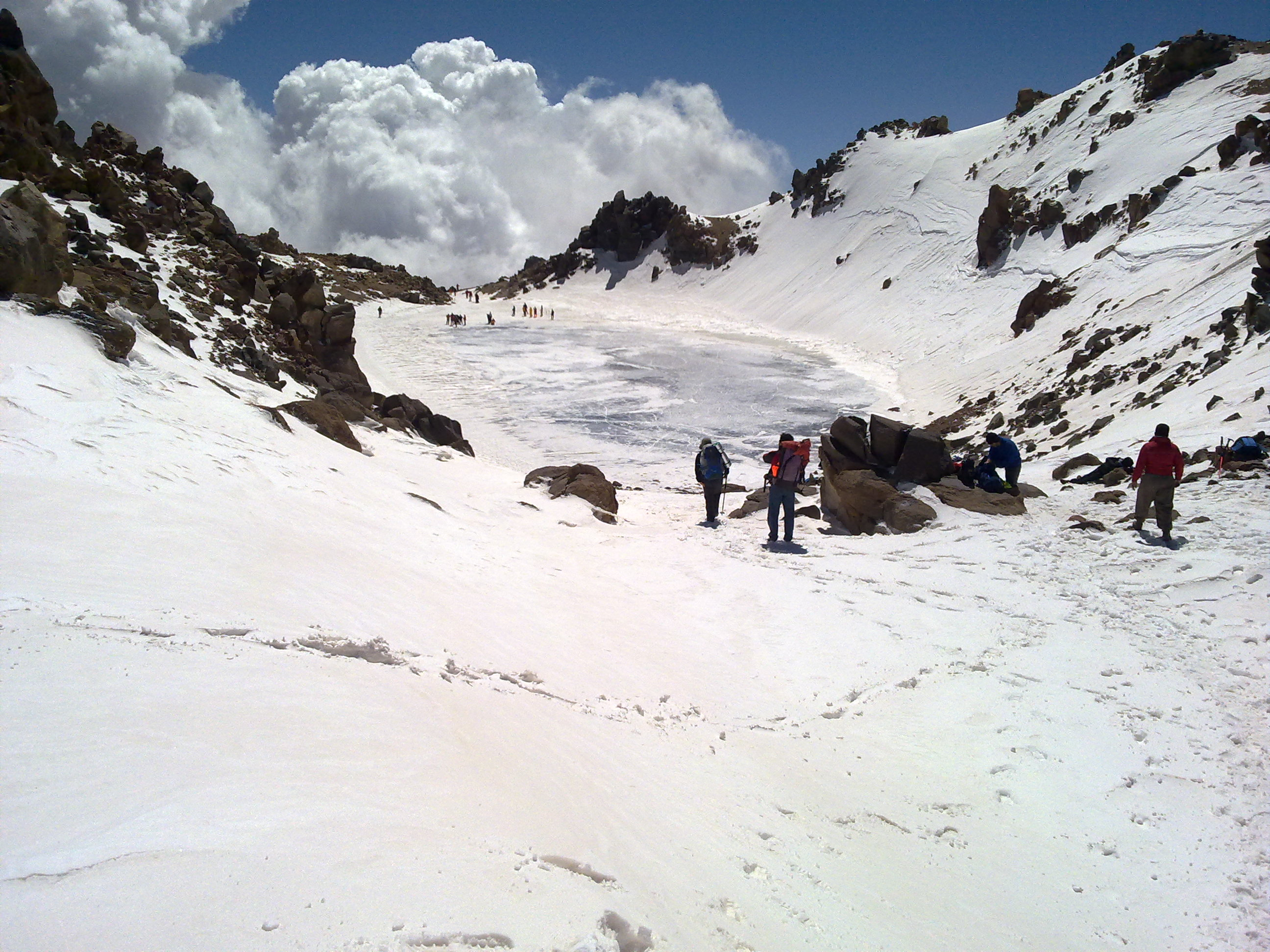 top of sabalan , june04